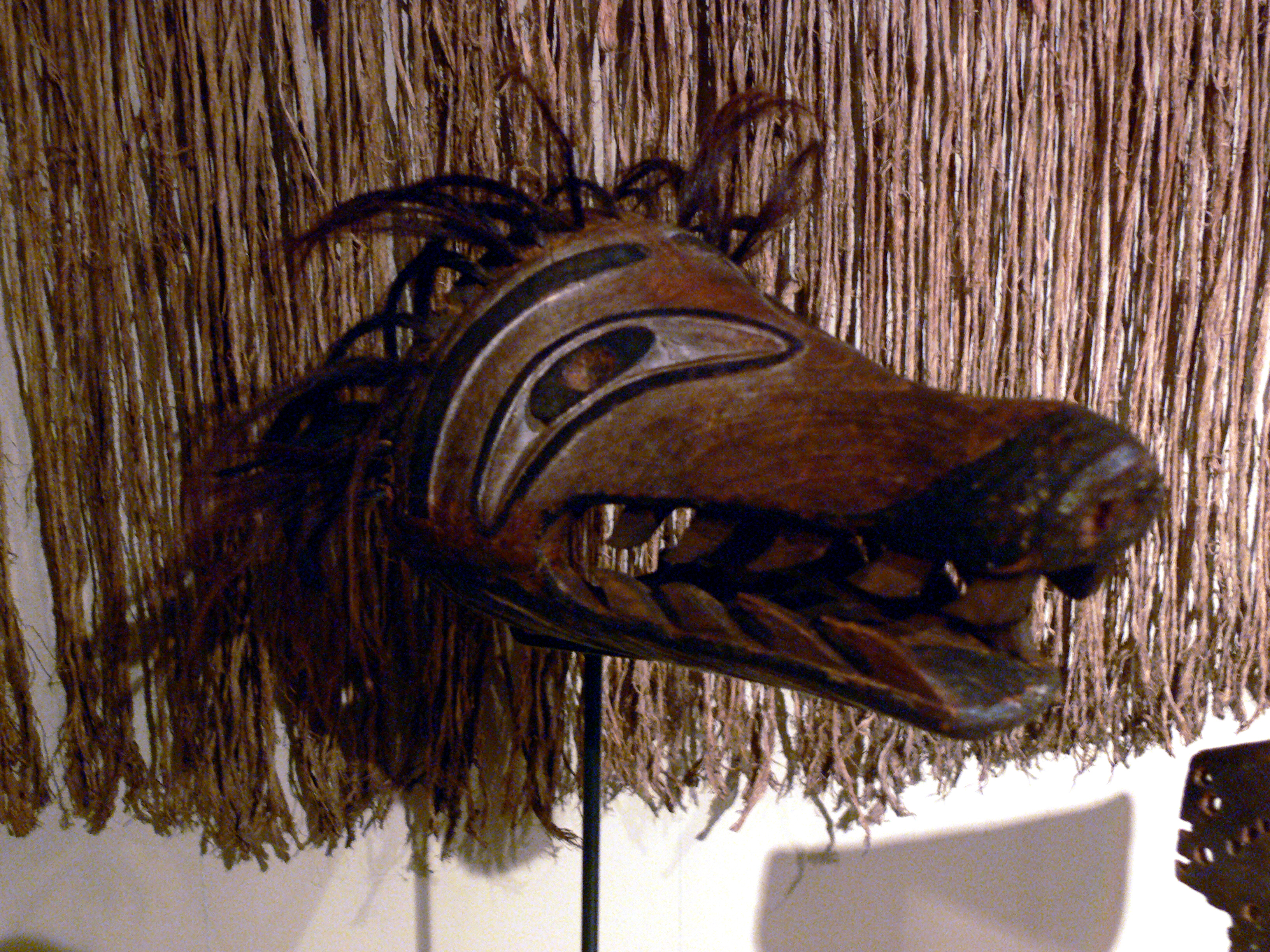 Wolf's mask with sharp teeth, from Nootka Sound; North America department, Ethnological Museum, Berlin, Germany (allegeldy by James Cook and his crew; acquisition in 1778)